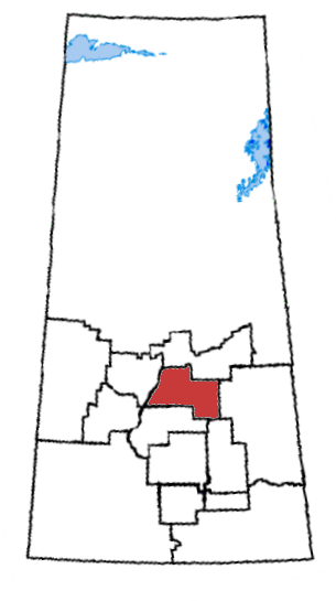 Map of the Saskatoon—Humboldt electoral district. Based on Earl Andrew's maps, created by SimonP.